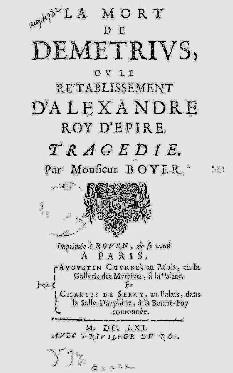 Page de garde de la tragédie La Mort de Démétrius